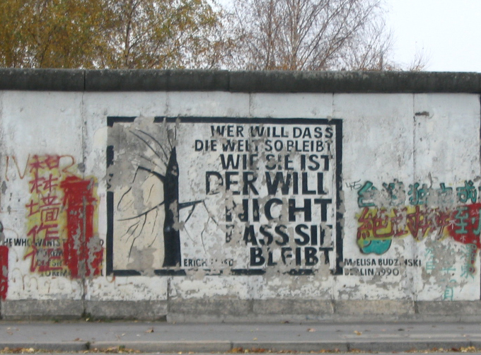 Berlin Wall: Anyone who wants to keep the world as it is, does not want it to remain